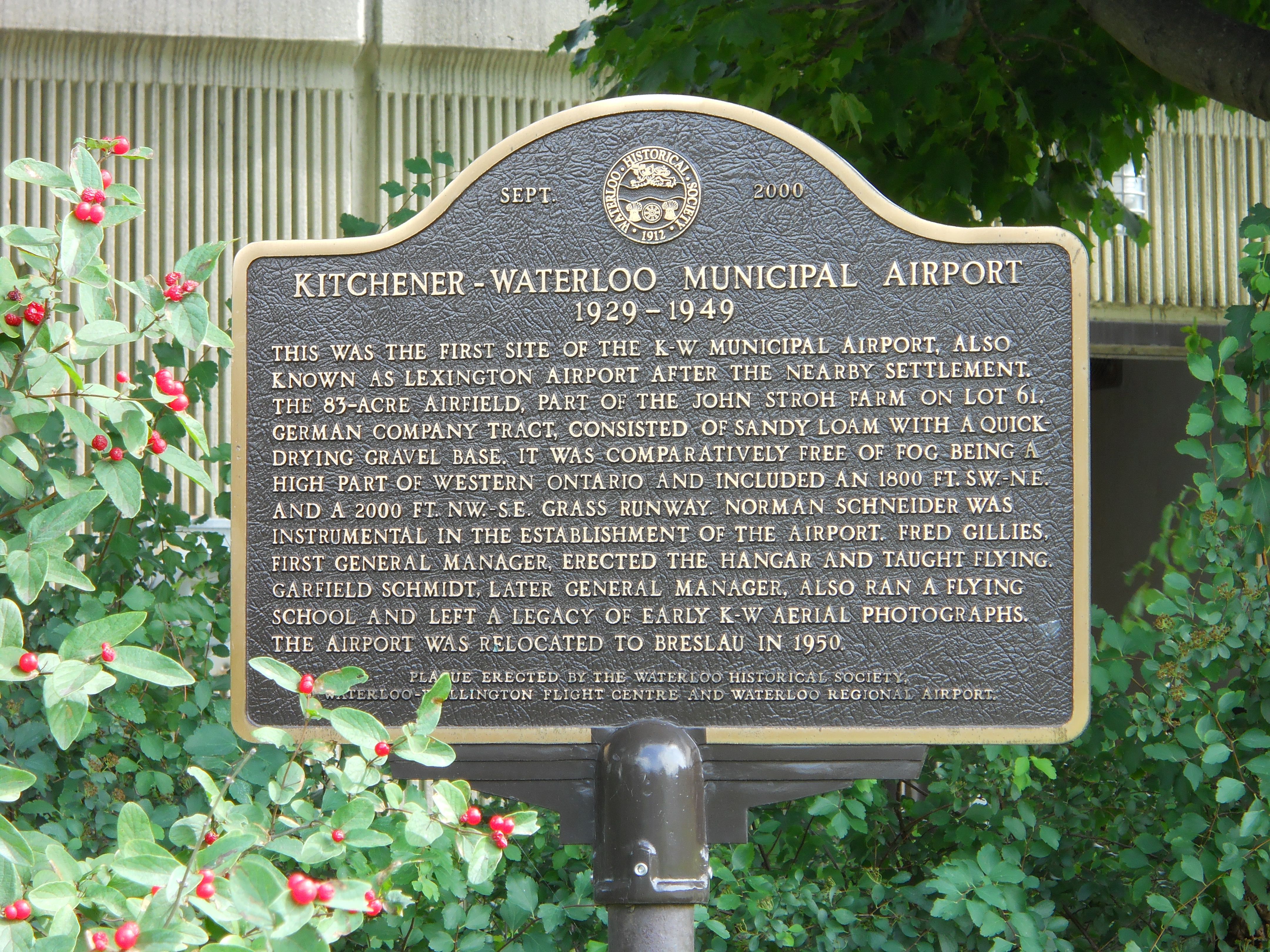 Historical plaque, 291 Lexington Road, Waterloo. Site of original KW airport.